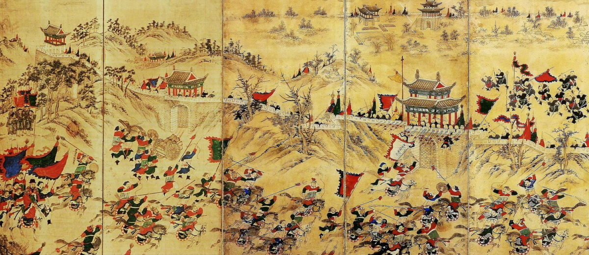 Paint of Siege of Pyongyang in 1593